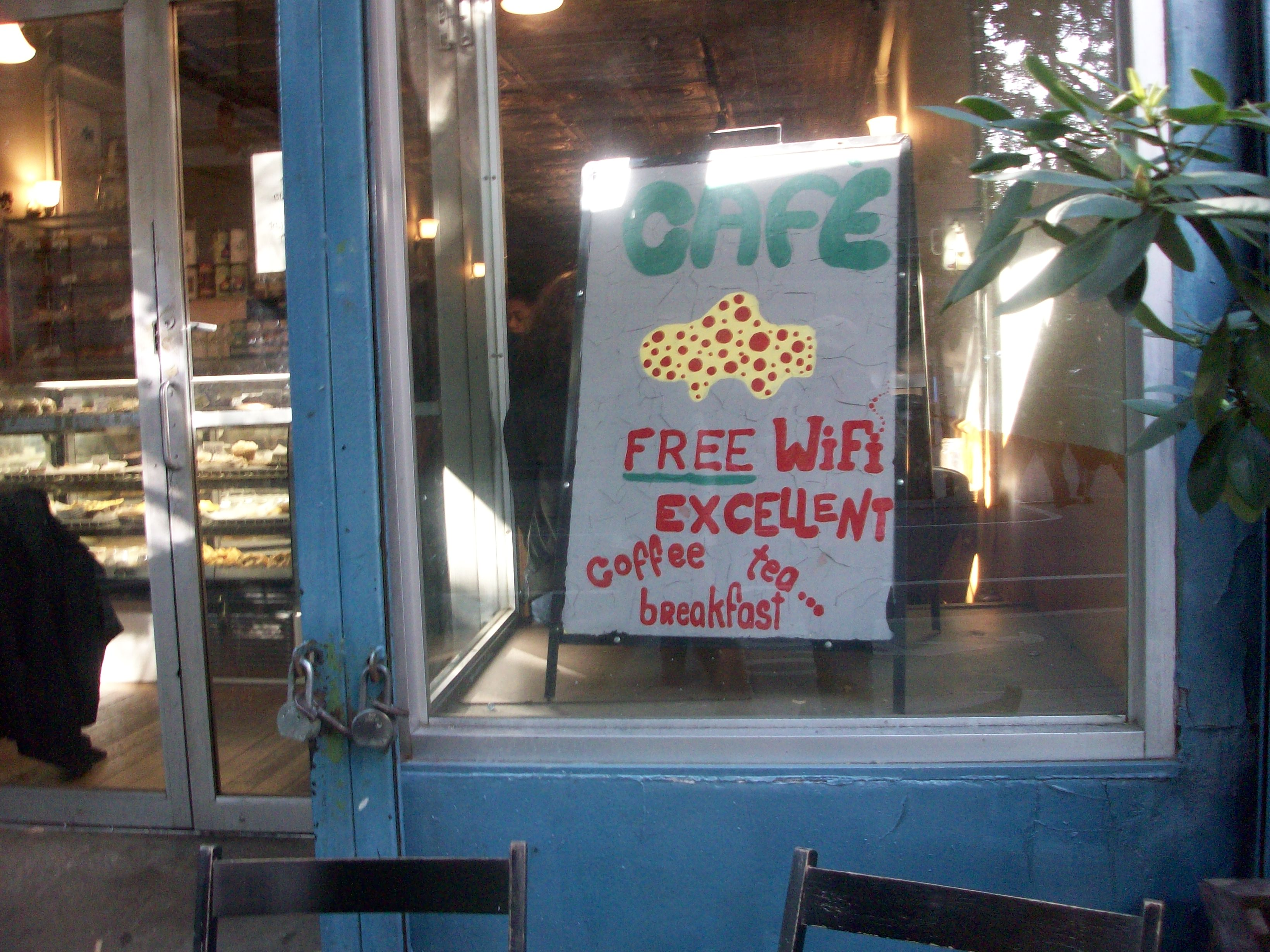 This photo is of Wikis Take Manhattan goal code S28, Hotspot (Wi-Fi).